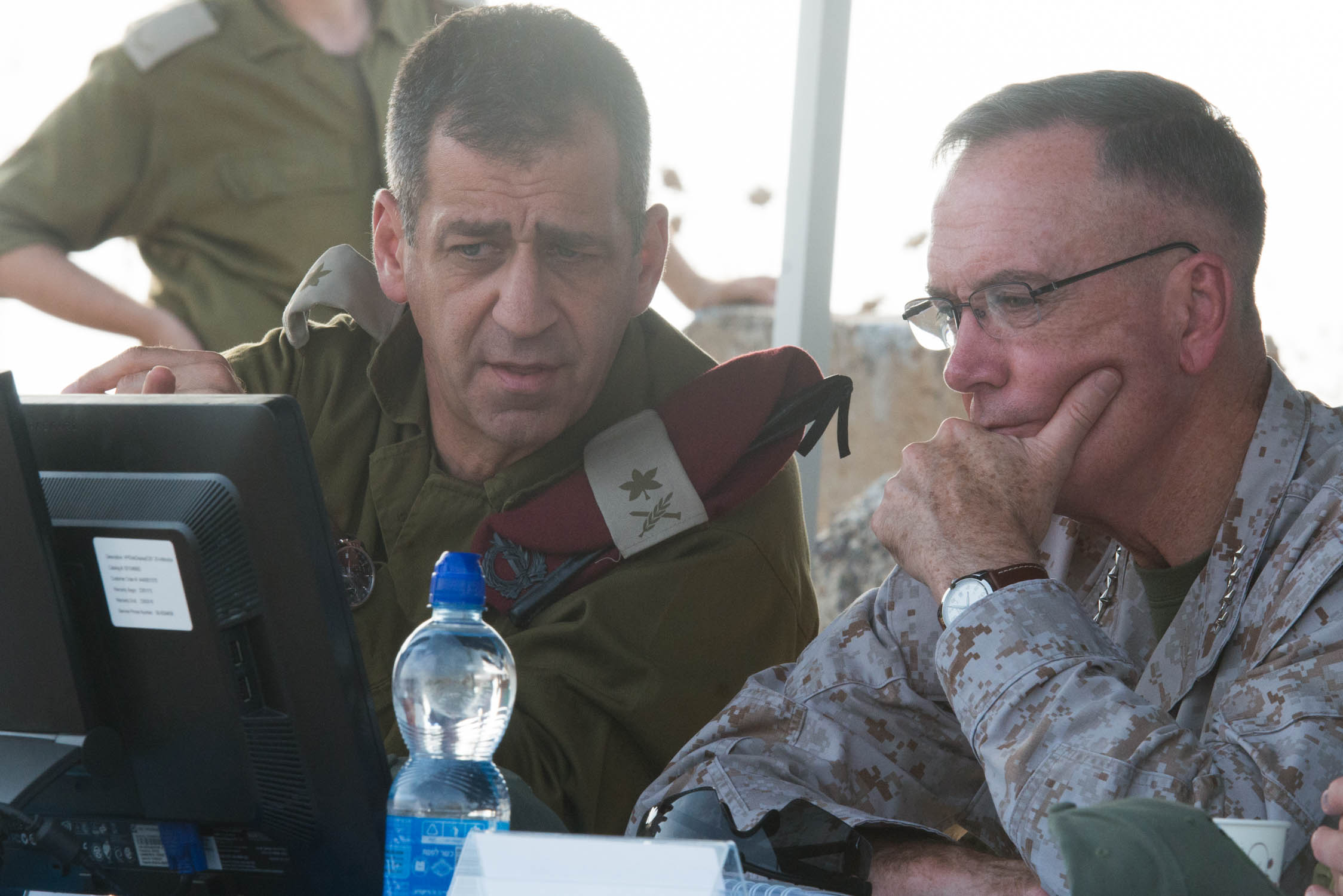 U.S. Marine Gen. Joseph F. Dunford Jr., chairman of the Joint Chiefs of Staff, receives a brief from Israeli Maj. Gen. Kochavi, in northern Israel, Oct. 18, 2015. (DoD photo by D. Myles Cullen/Released)